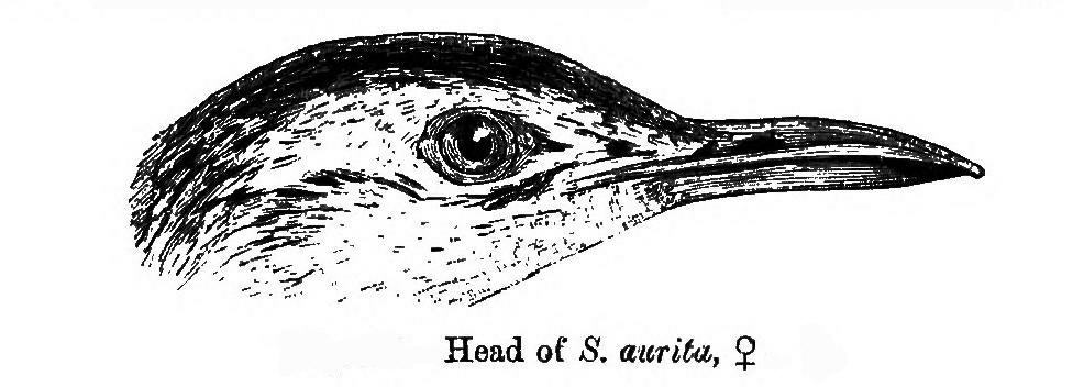 Head of Sypheotides indicus female